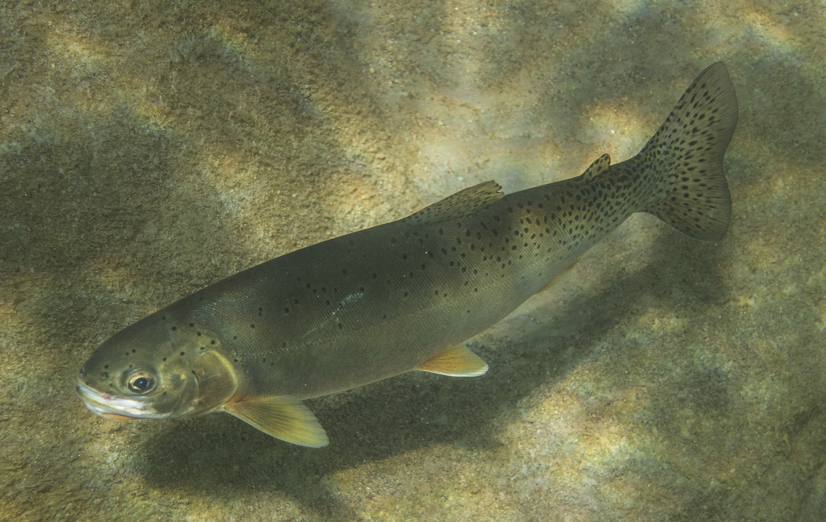 Middle Fork of the Flathead Wild and Scenic River